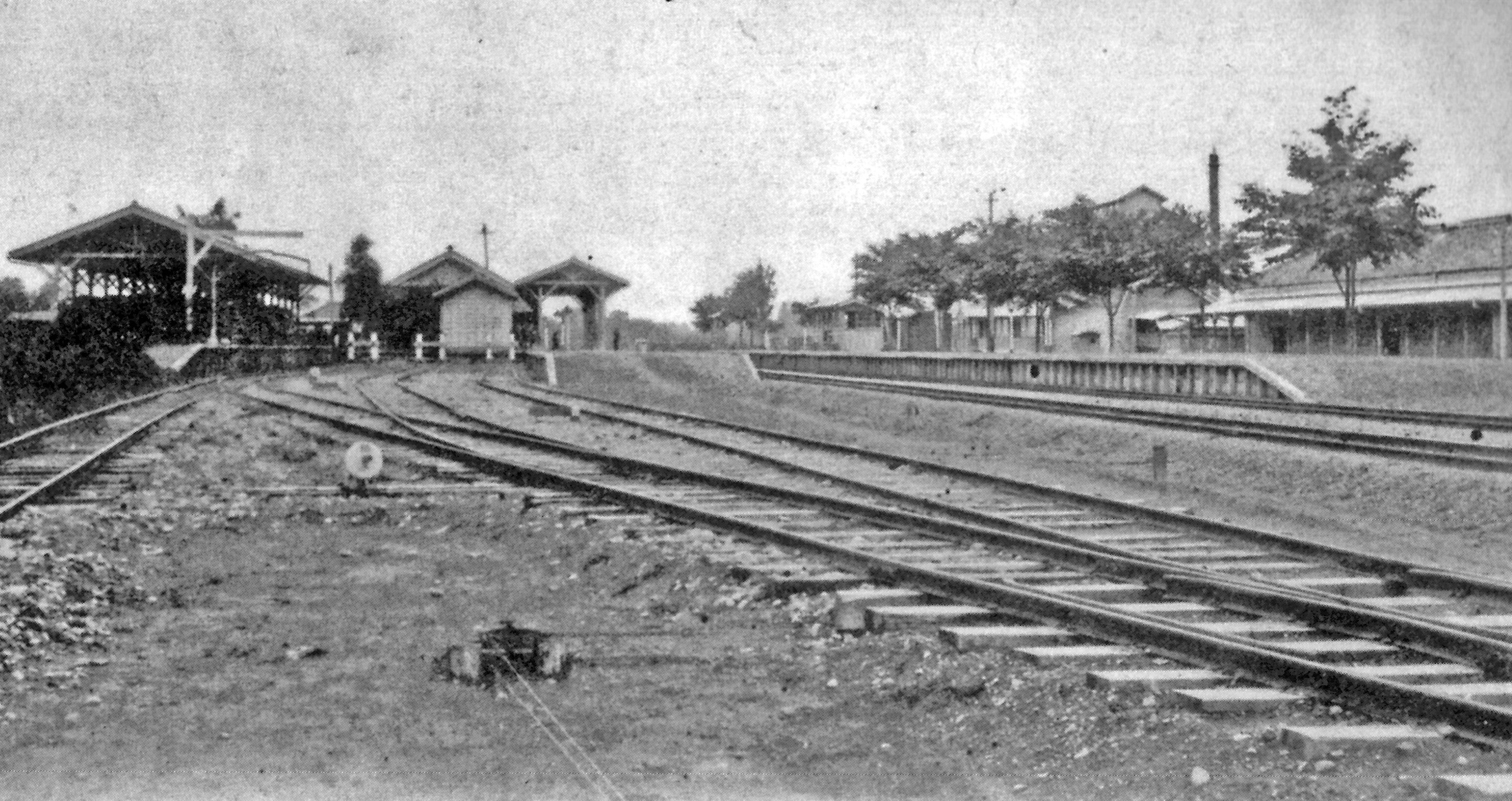 Tatebayashi Station on the Tobu Isesaki Line